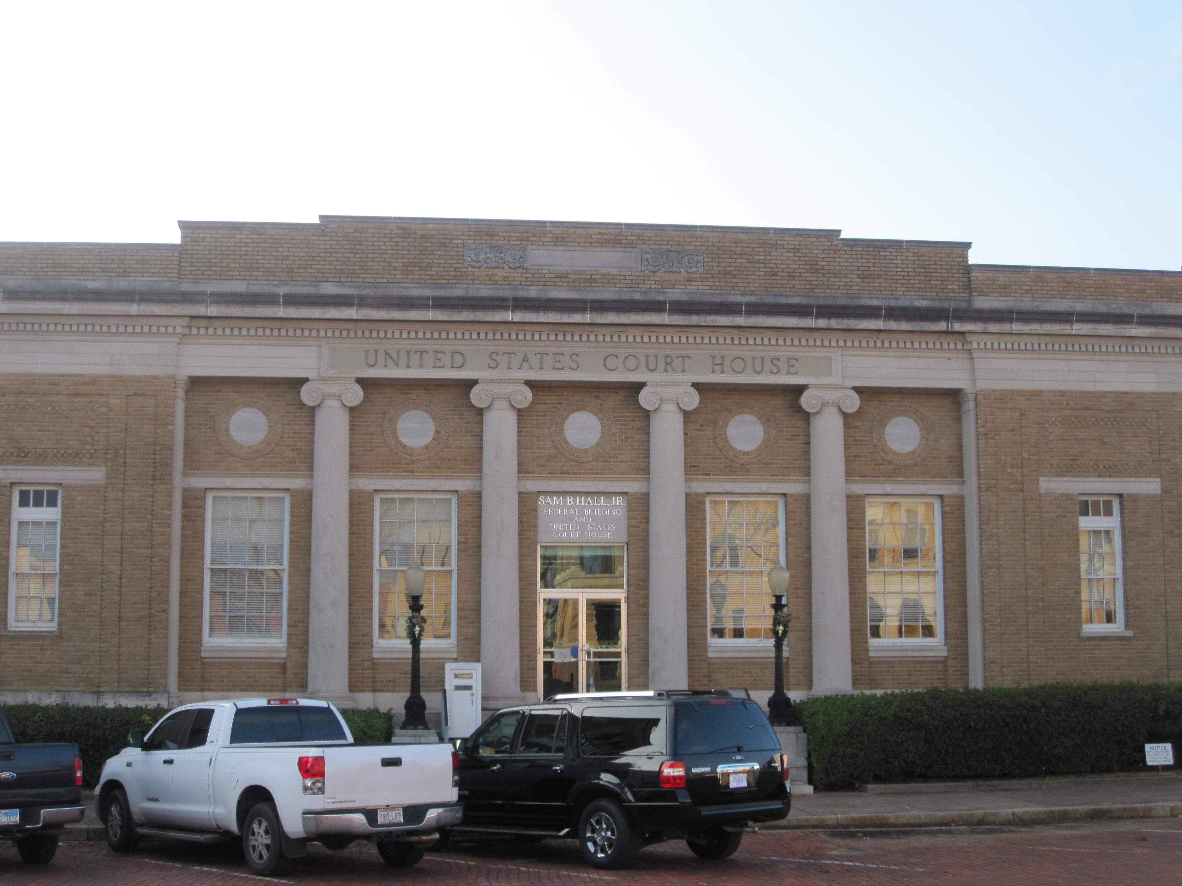 Sam B. Hall, Jr. U.S. Courthouse in Marshall, TX